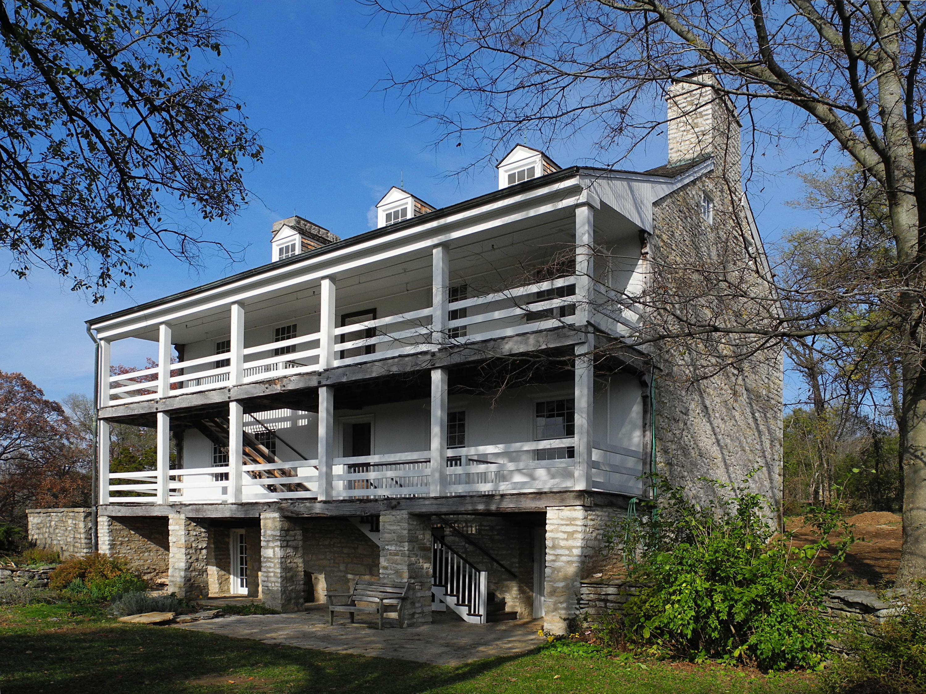 The Historic Daniel Boone Home in Defiance, Missouri, the last home of American frontiersman Daniel Boone, is owned and operated by Lindenwood University and is on the National Register of Historic Places.